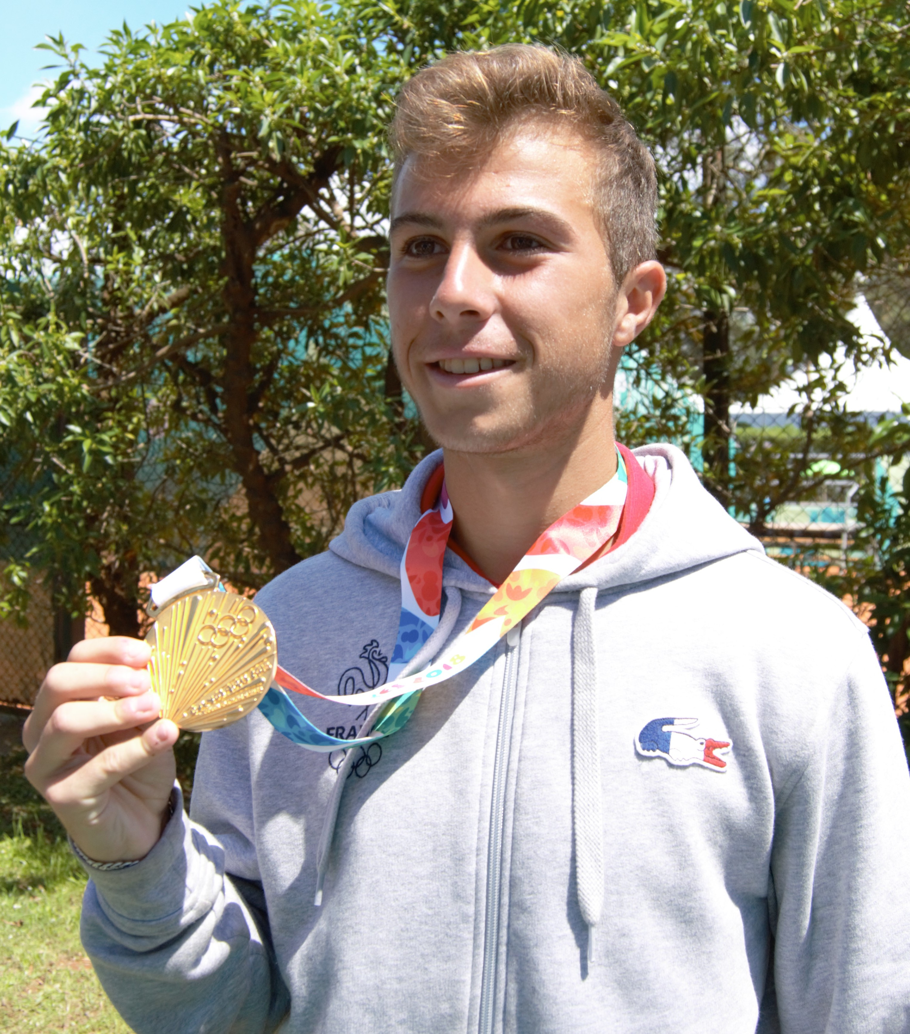 Hugo Gaston with his gold medal of the 2018 Summer Youth Olympics.